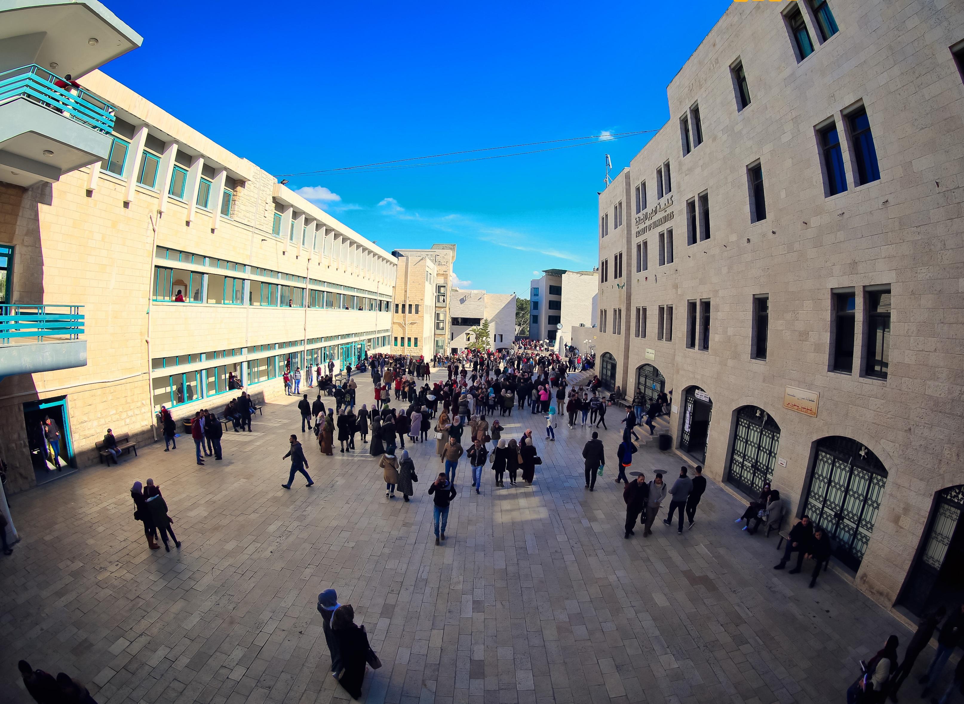 جامعة النجاح- الحرم القديم